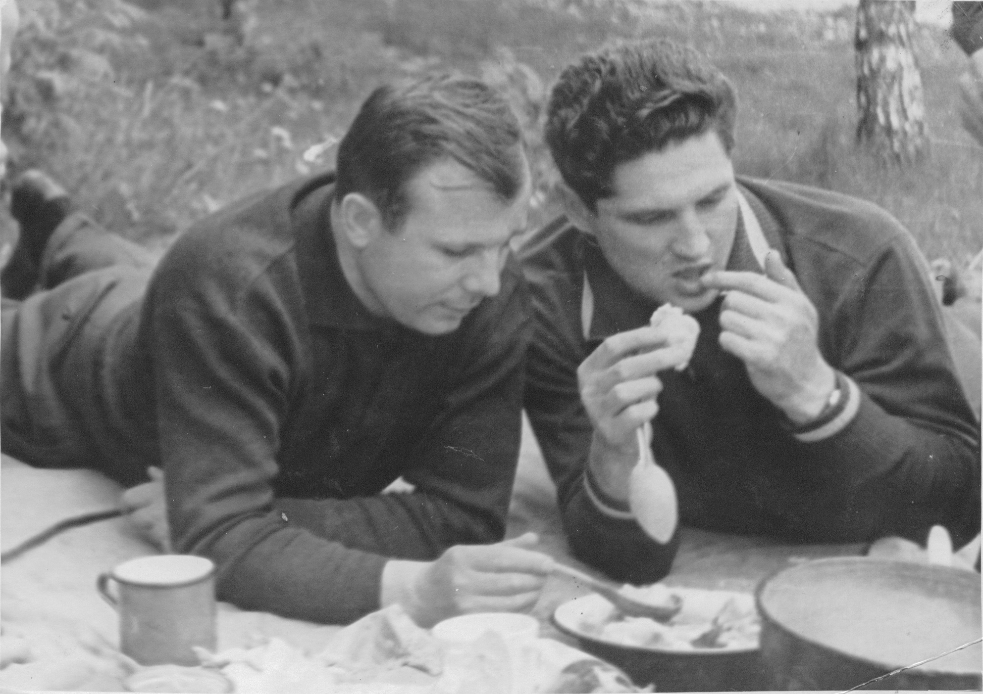 From the family album where the first soviet cosmonauts: Yuri Gagarin, Alexey Leonov, Boris Volynov, Viсtor Gorbatko - are on picnic in Dolgoprudny.